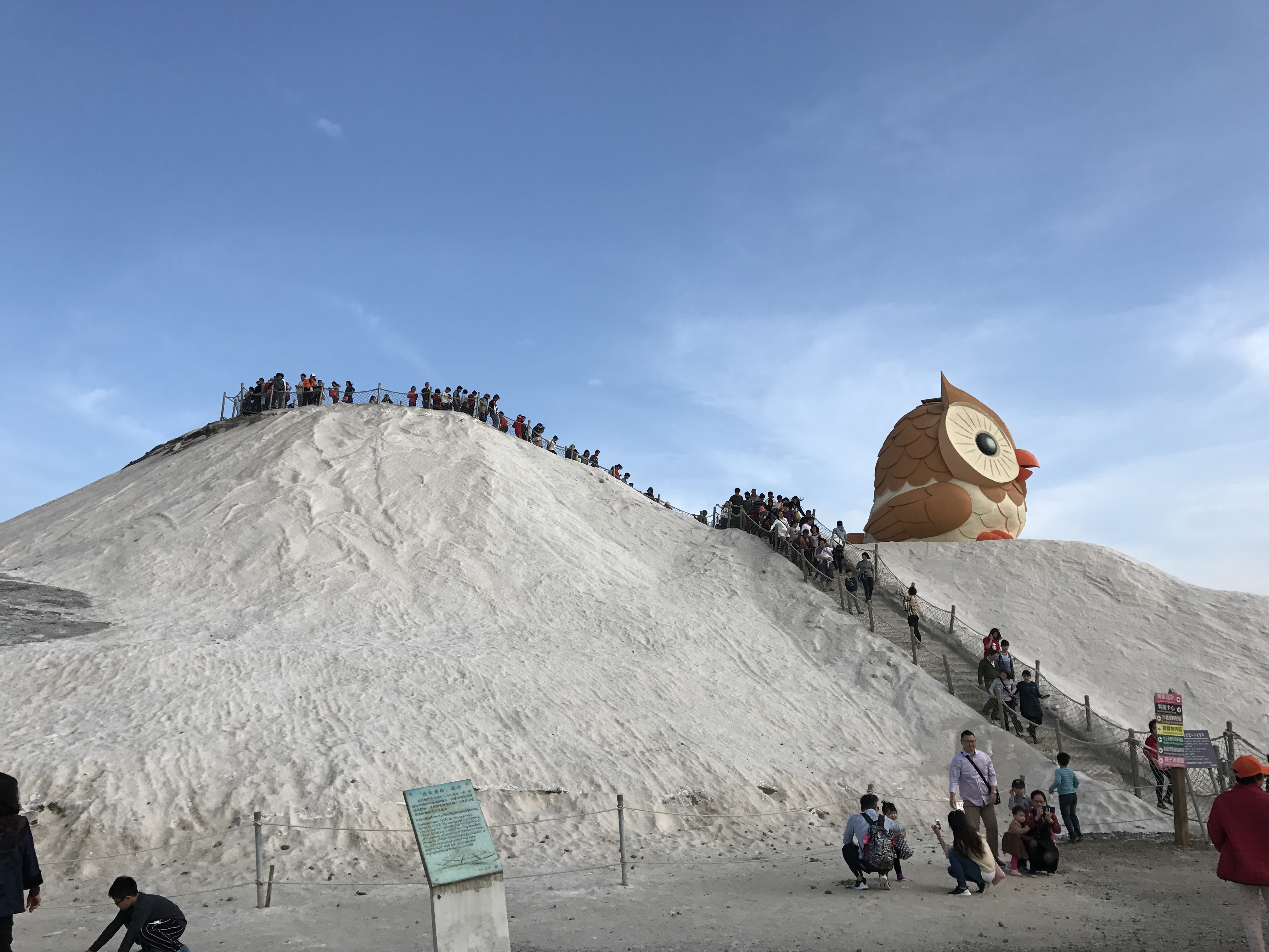 Tourists climbing Qigu Salt Mountain.